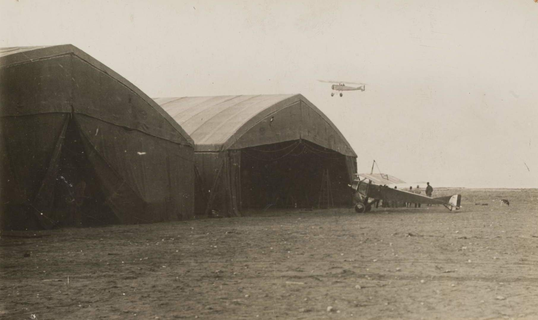 Départ d'un avion en reconnaissance.